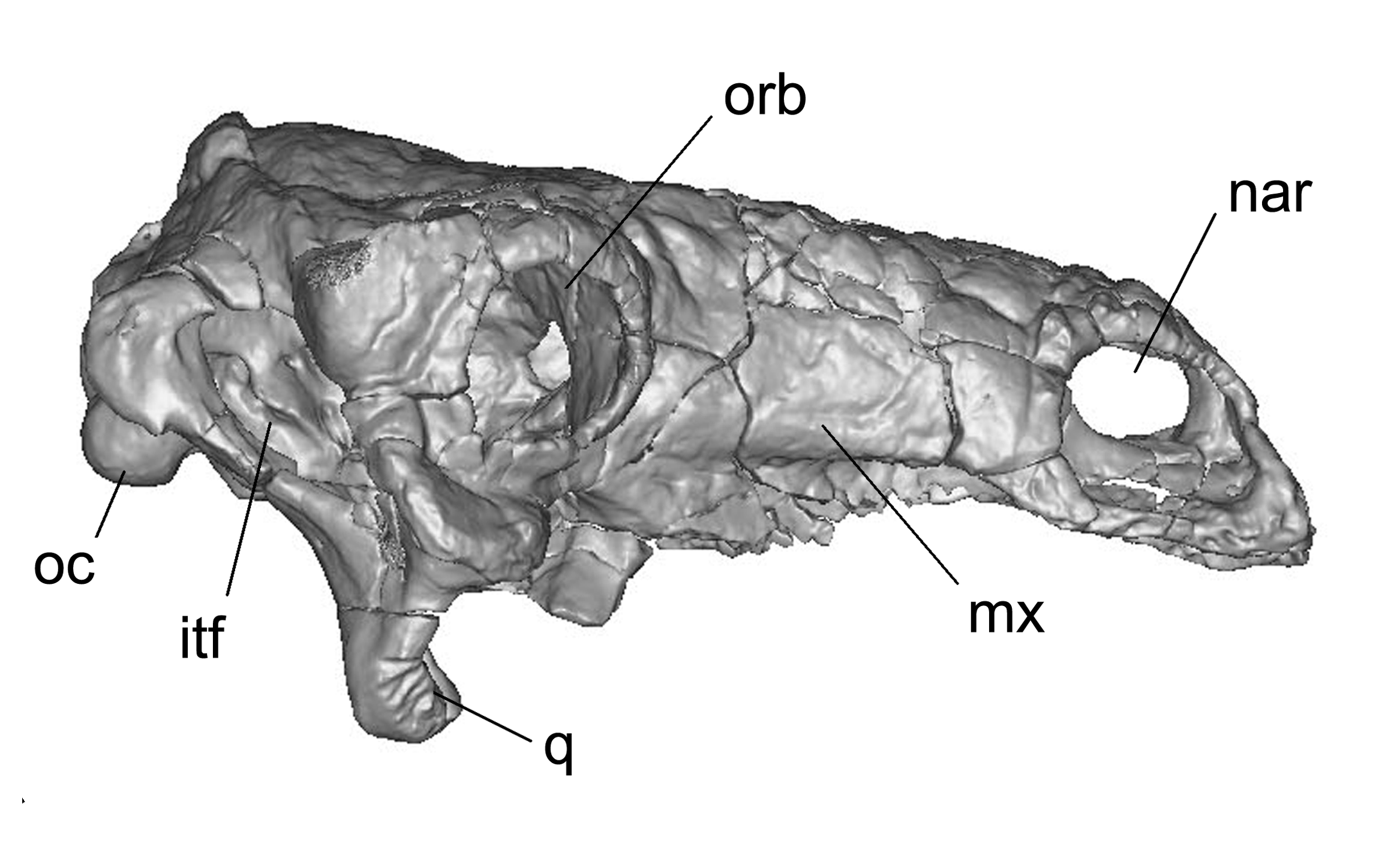 Crop of file in filename